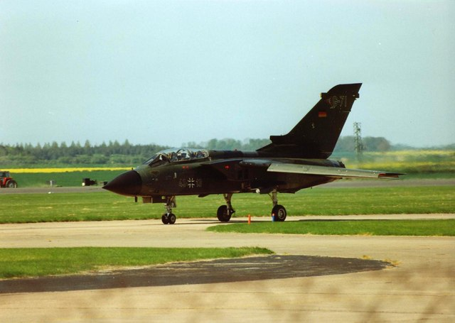 German Tornado at RAF Cottesmore